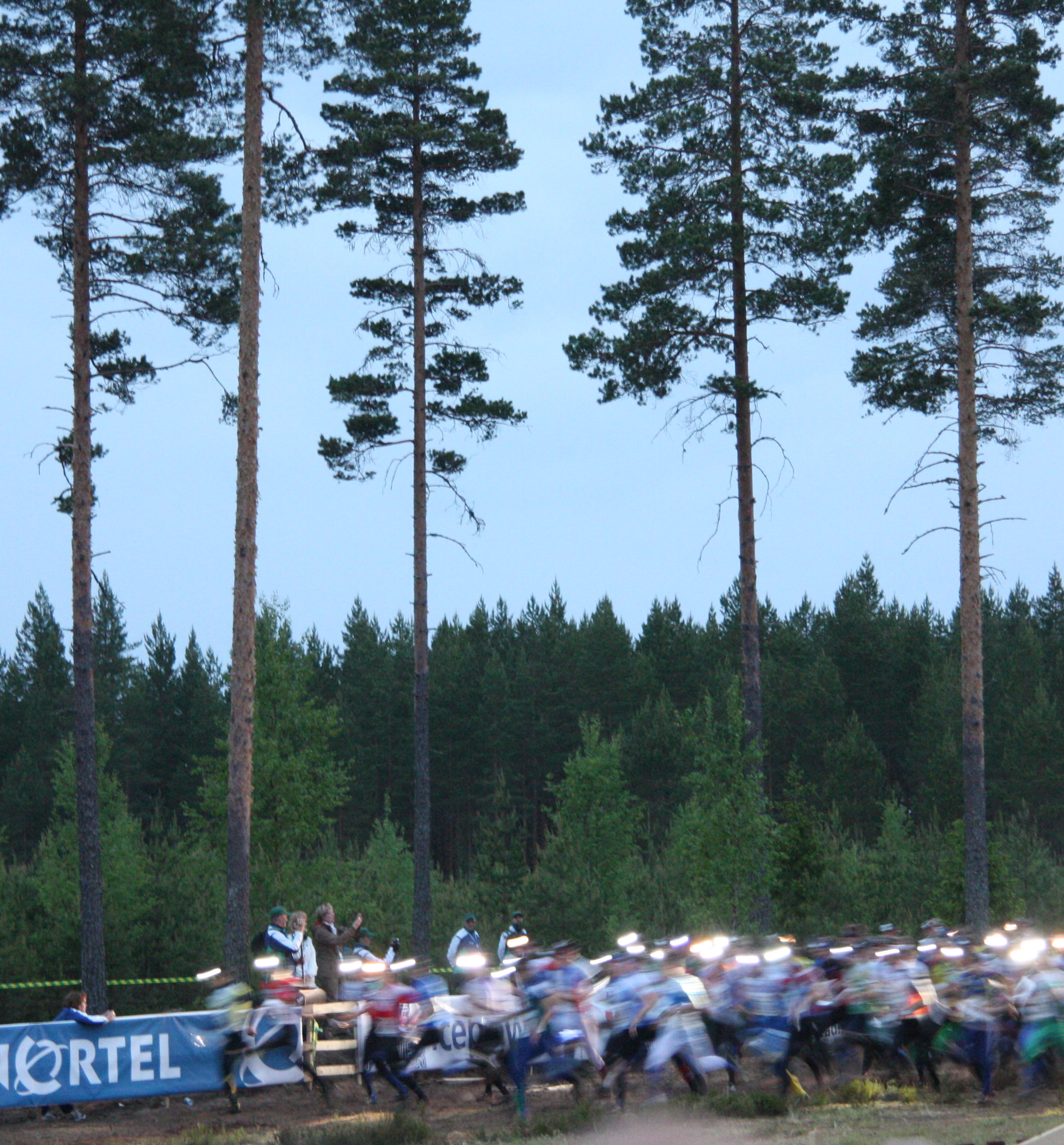 Jukola relay 2008 in Tampere, start